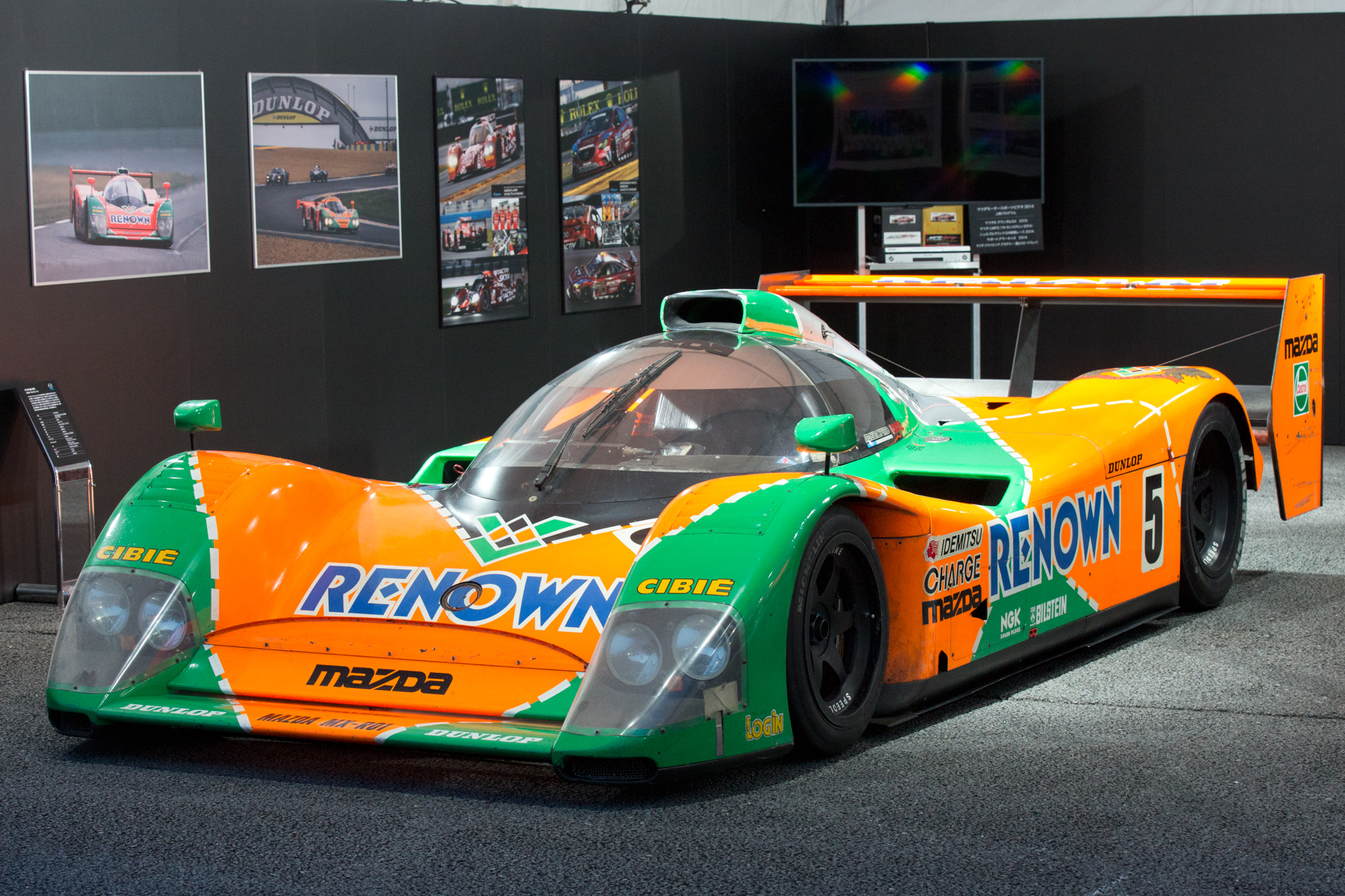 FIA World Endurance Championship 2014 Rd.5 6 Hours of Fuji: Mazda MXR-01 (Mazdaspeed)